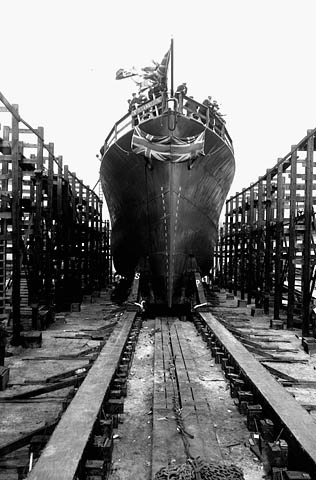 Frigate HMCS "Cap de la Madeleine" sliding down the ways during her launch ceremony. Quebec.